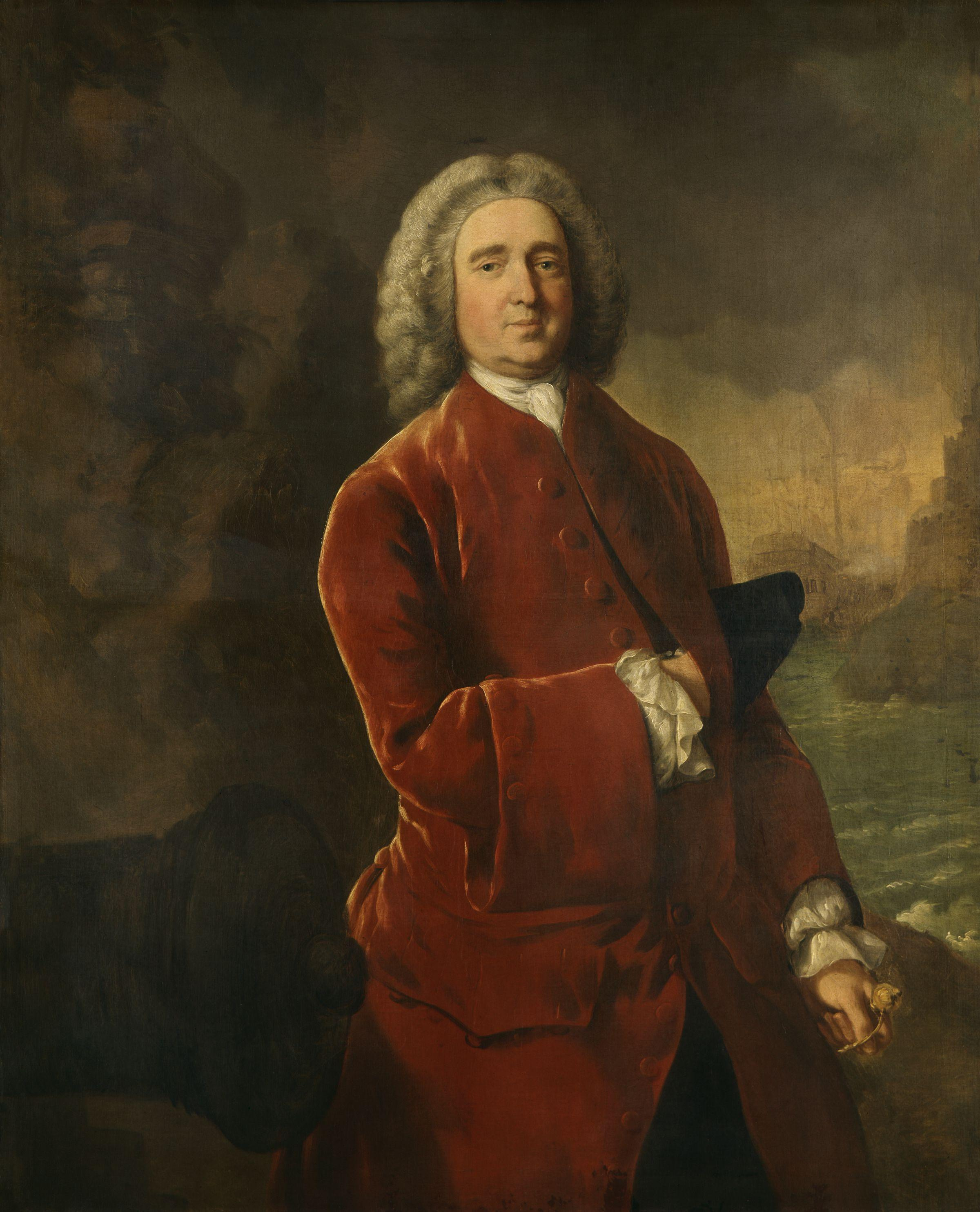 Edward Vernon. All images in this batch have been confirmed as author died before 1939 according to the official death date listed by the NPG.